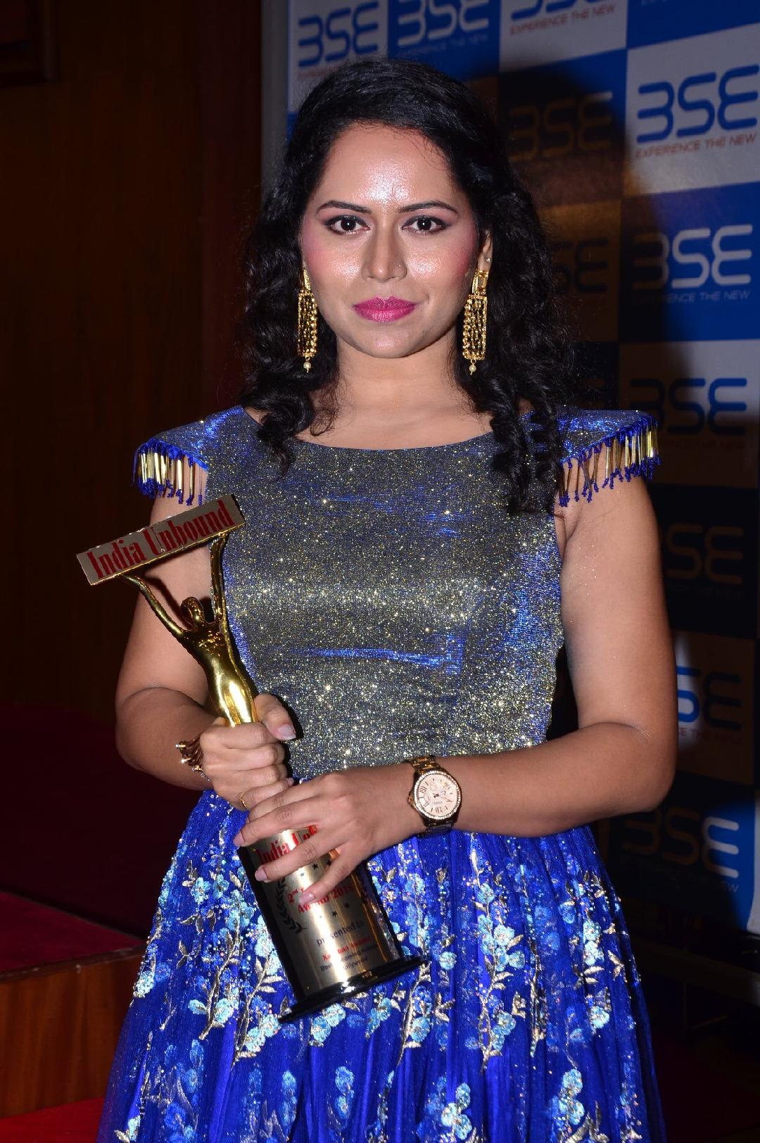 This picture is taken during India Unbound Awards 2018.